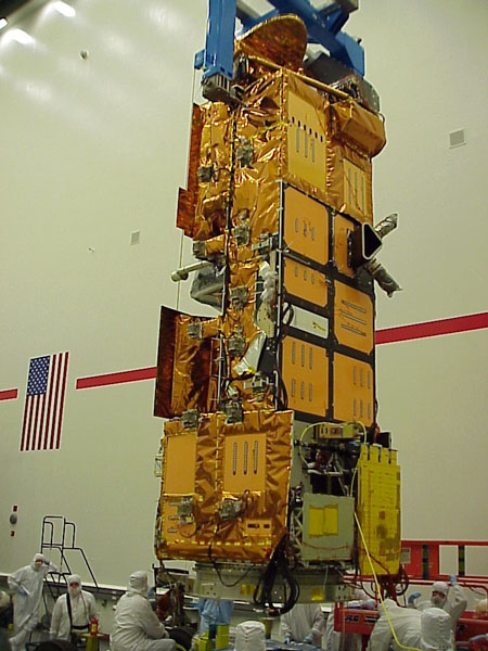 Aura satellite SC Hanging -Z-Y